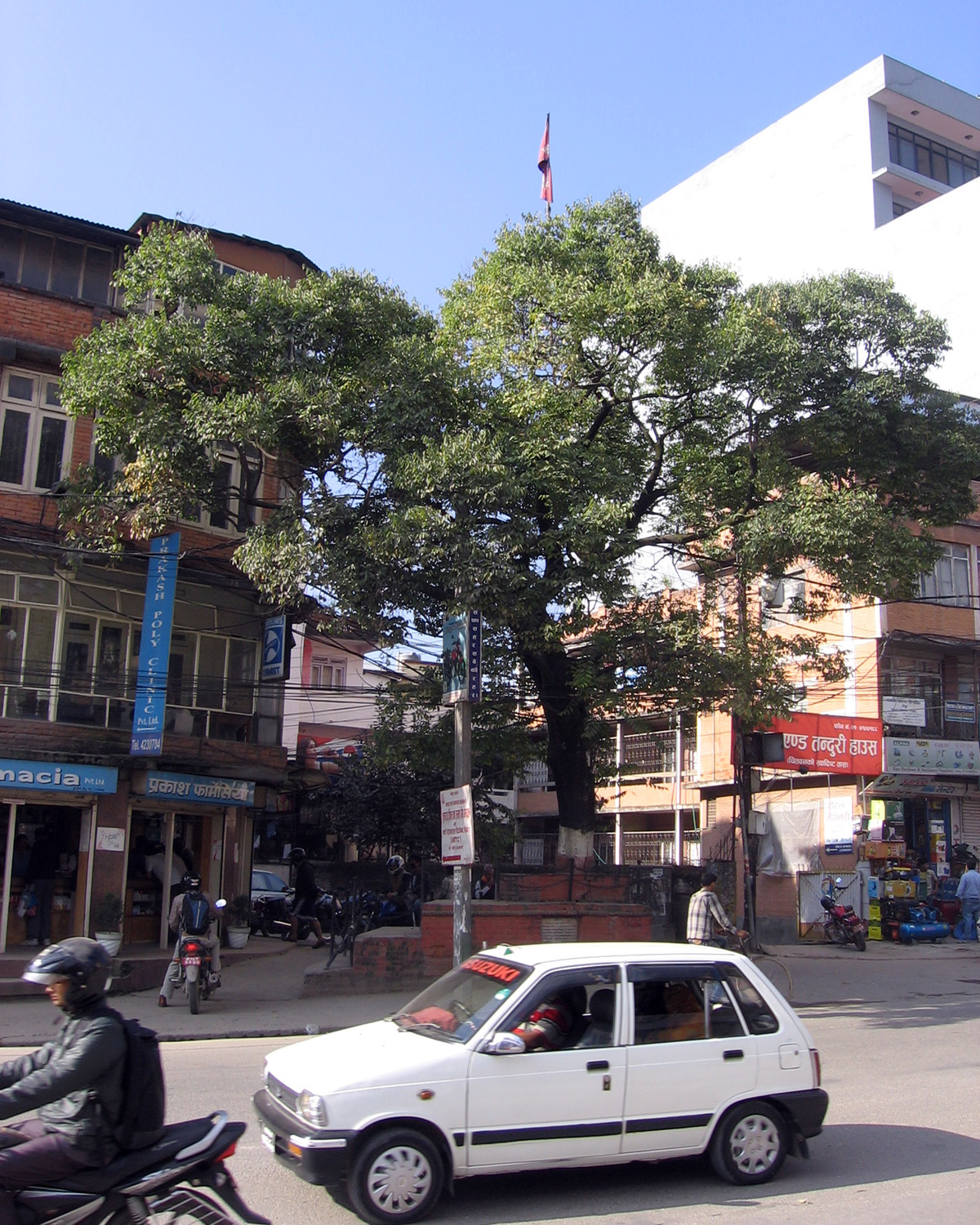 The tree at Pachali, Kathmandu from which martyr Shukra Raj Shastri was hanged by the Rana regime in 1941.